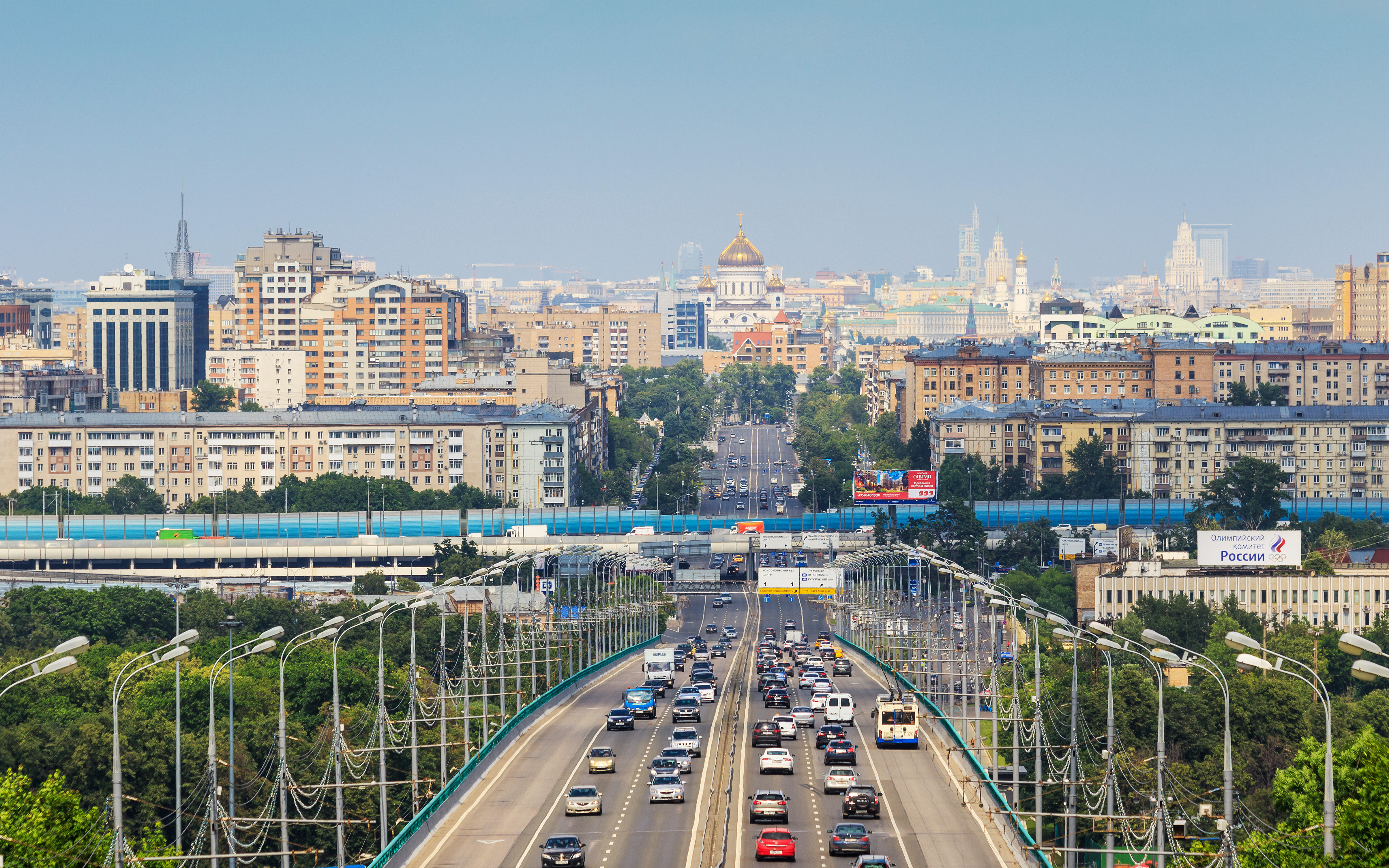 View from Kosygina Street at Sparrow Hills in Moscow